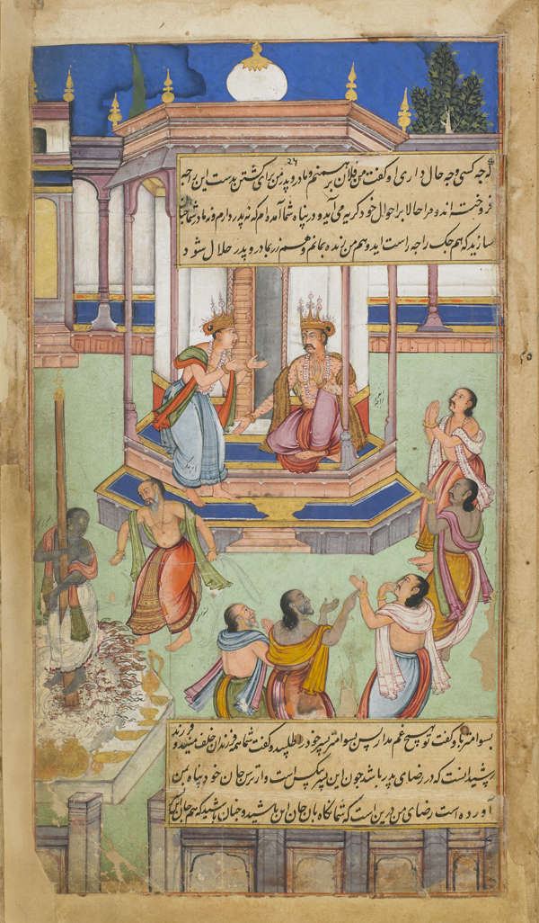 Folio from the Ramayana of Valmiki (The Freer Ramayana), Vol. 1, folio 59; recto: Ambarisa offers the youth Sunahsepha in sacrifice; verso: Visvamitra utters a curse 1597-1605 Nadim , (Indian, Mughal dynasty Opaque watercolor, ink, and gold on paper H: 24.7 W: 13.1 cm Northern India Gift of Charles Lang Freer F1907.271.59